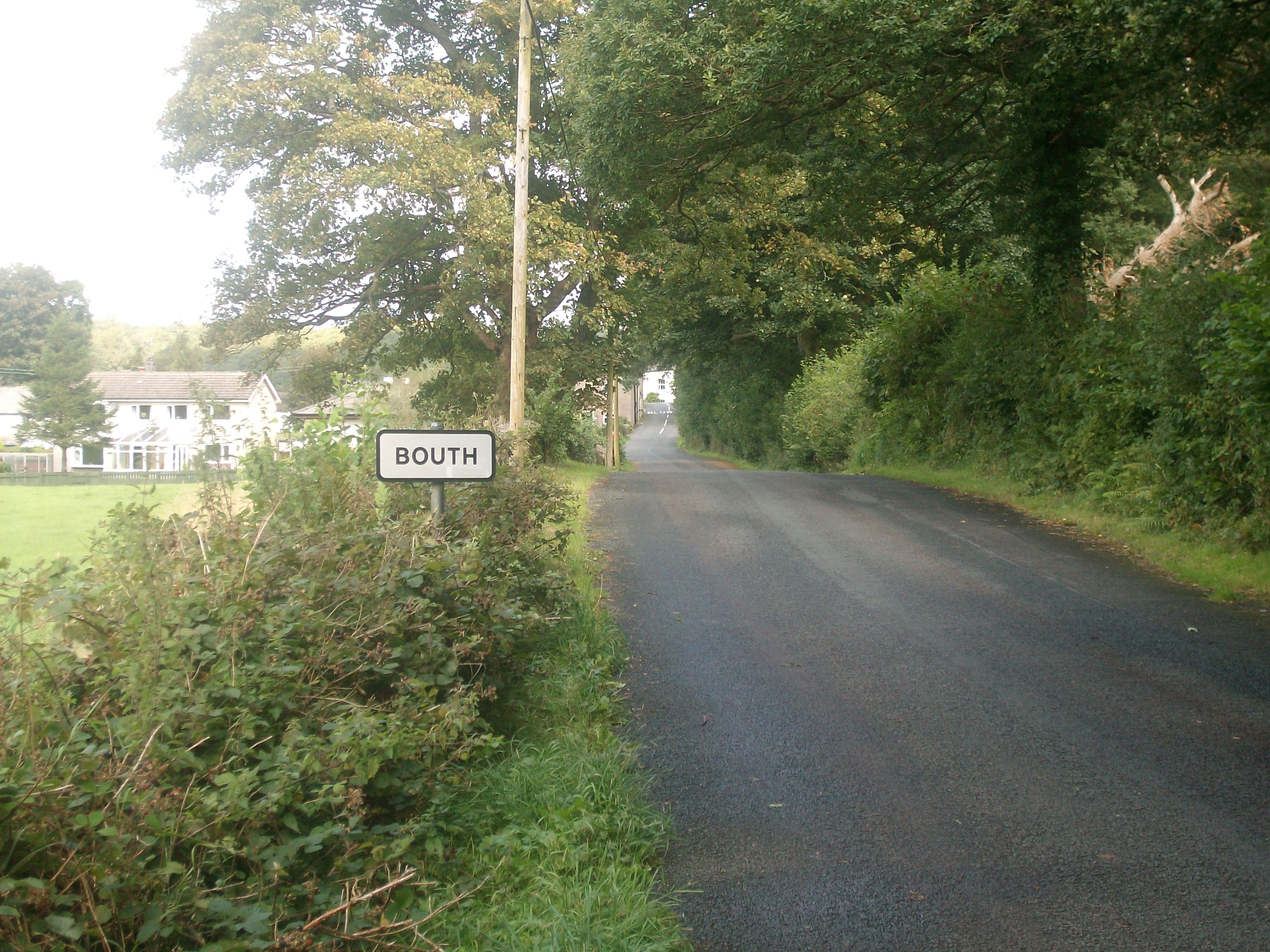 Road entering Bouth from the south-east